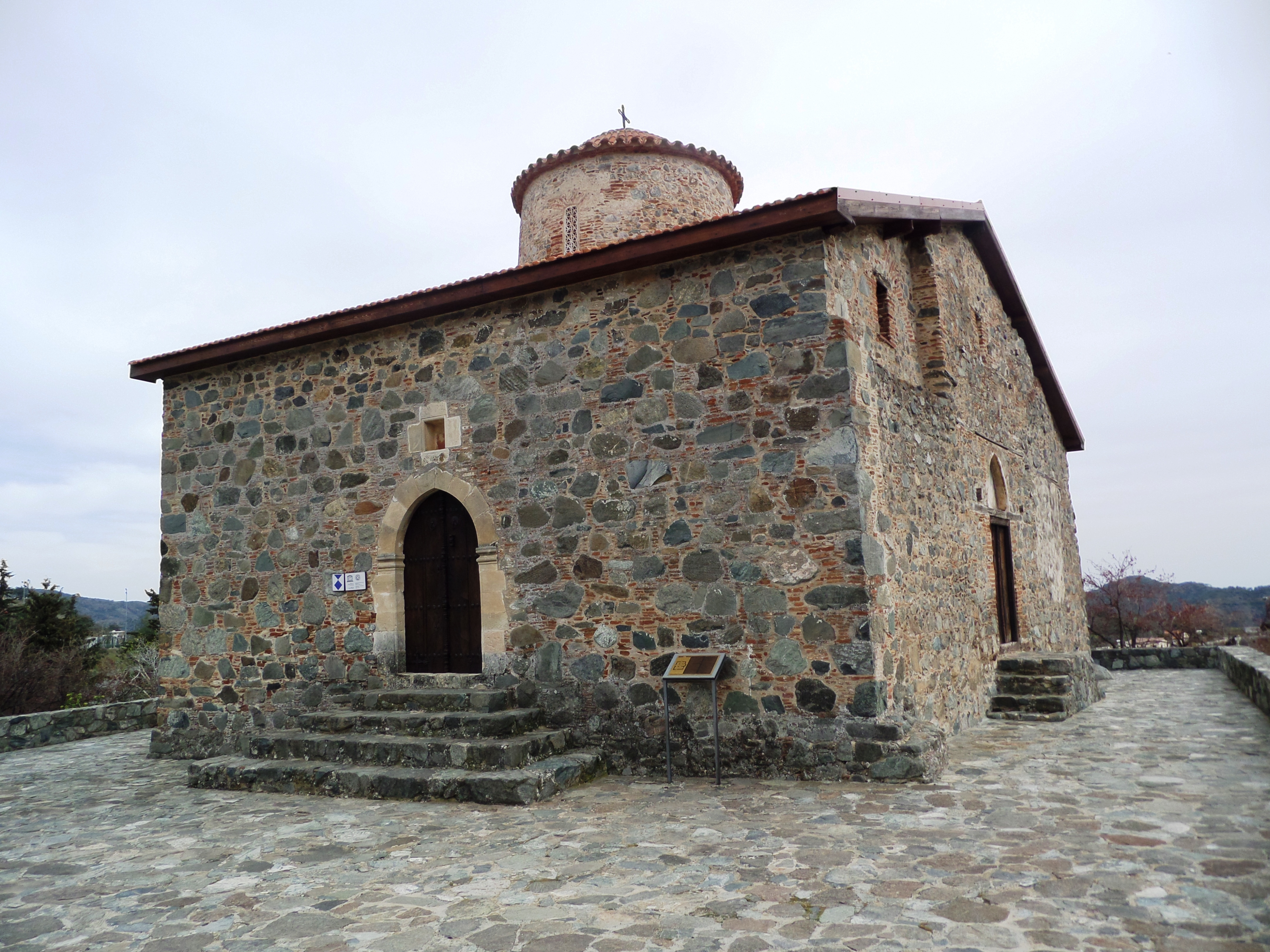 Holy Cross church at Pelendri.